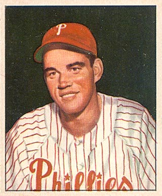 Bob Miller baseball card